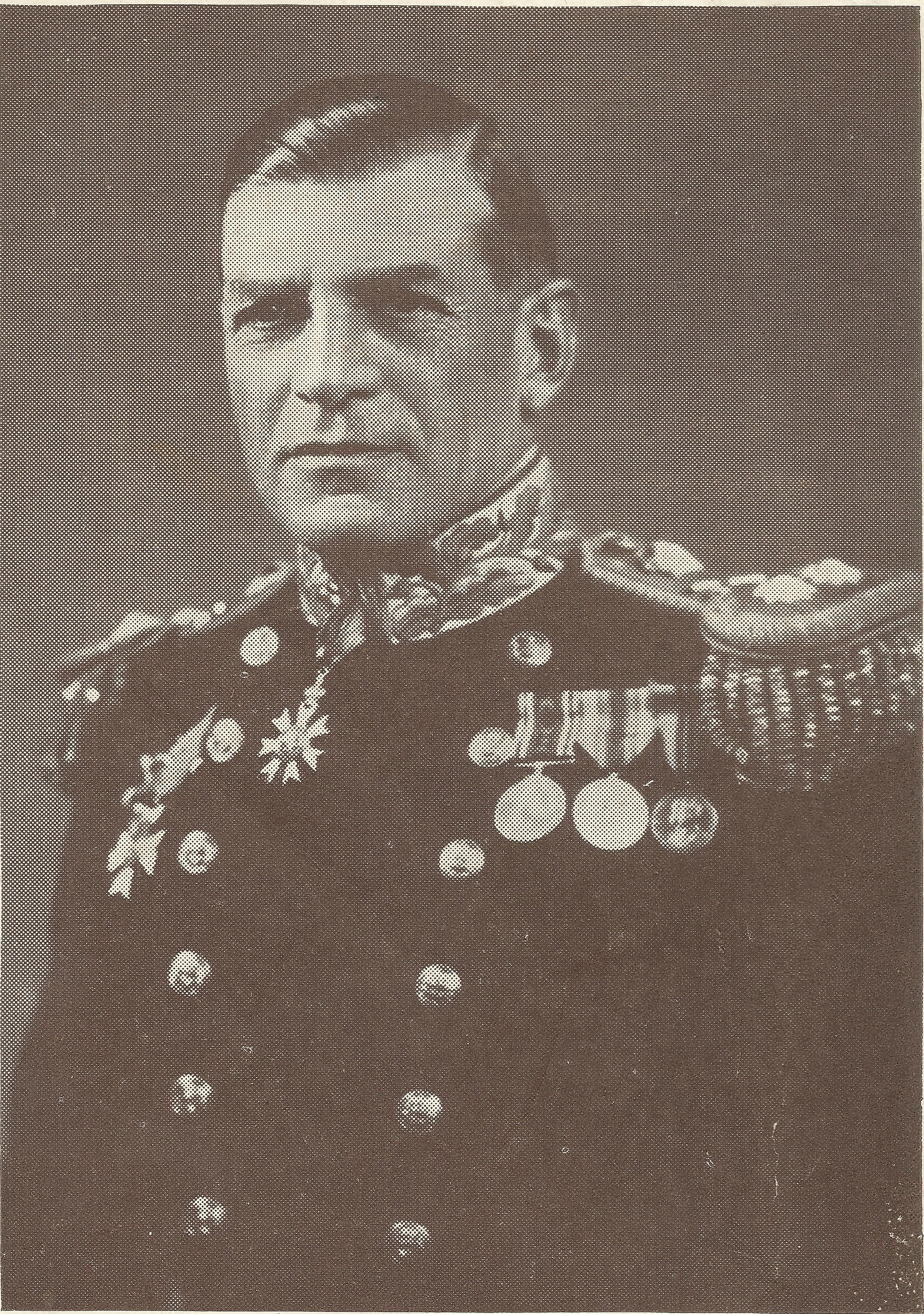 Formal uniform